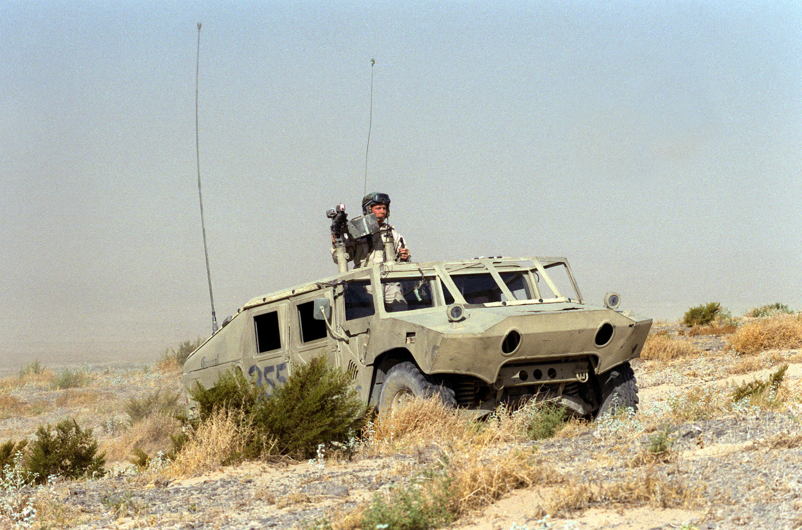 First Lieutenant Eziezynski from the 177th Armoured Brigade waits in a High-Mobility Multipurpose Wheeled Vehicle (HMMWV), visually modified to represent an amphibious scout car (BRDM), at the National Training Center, during a battle exercise.Location: FORT IRWIN, CALIFORNIA (CA) UNITED STATES OF AMERICA (USA)